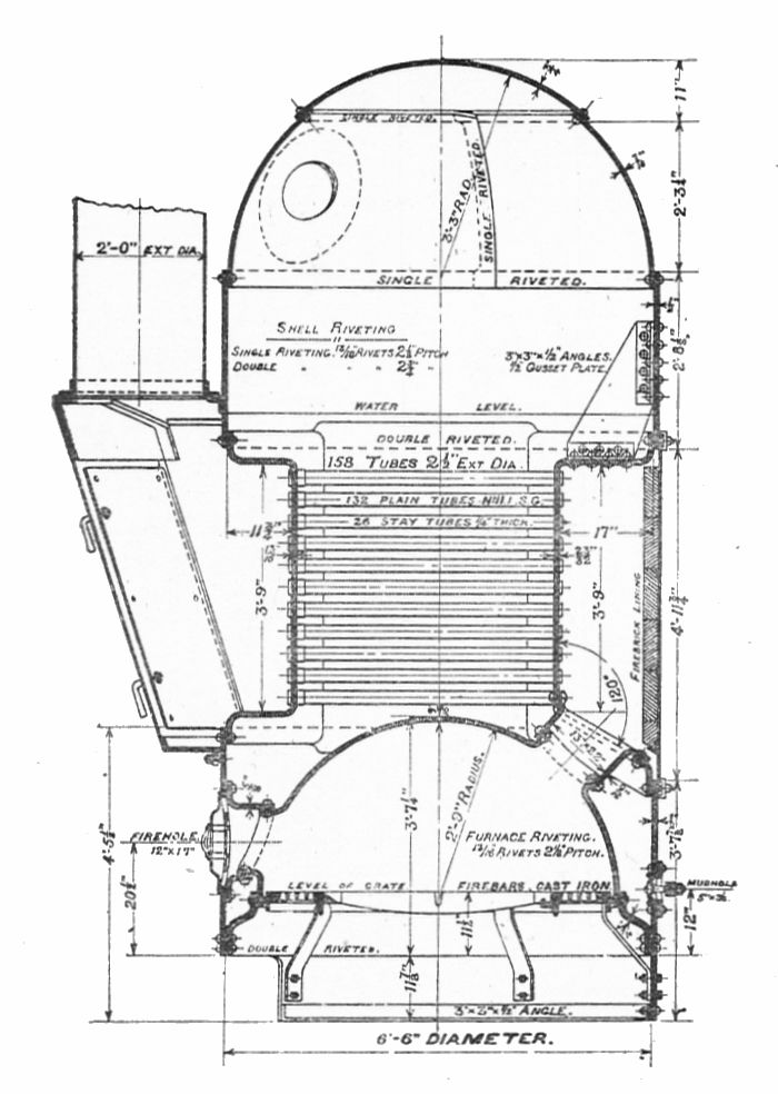 Cochran boiler, section (Bentley, Sketches of Engine and Machine Details).jpg